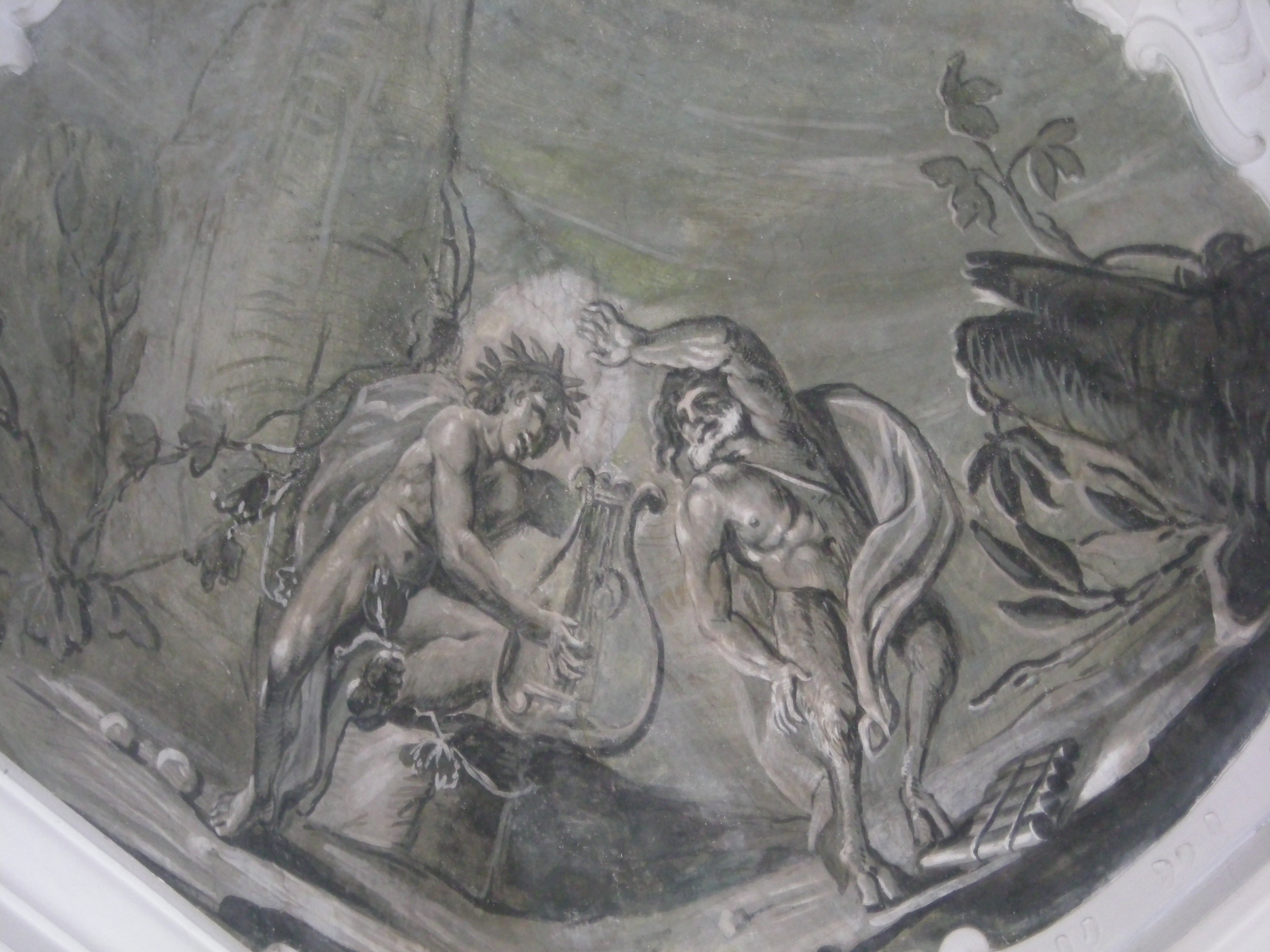 Pan and Apollo in palace Besenghi degli Ughi, Izola, Slovenia